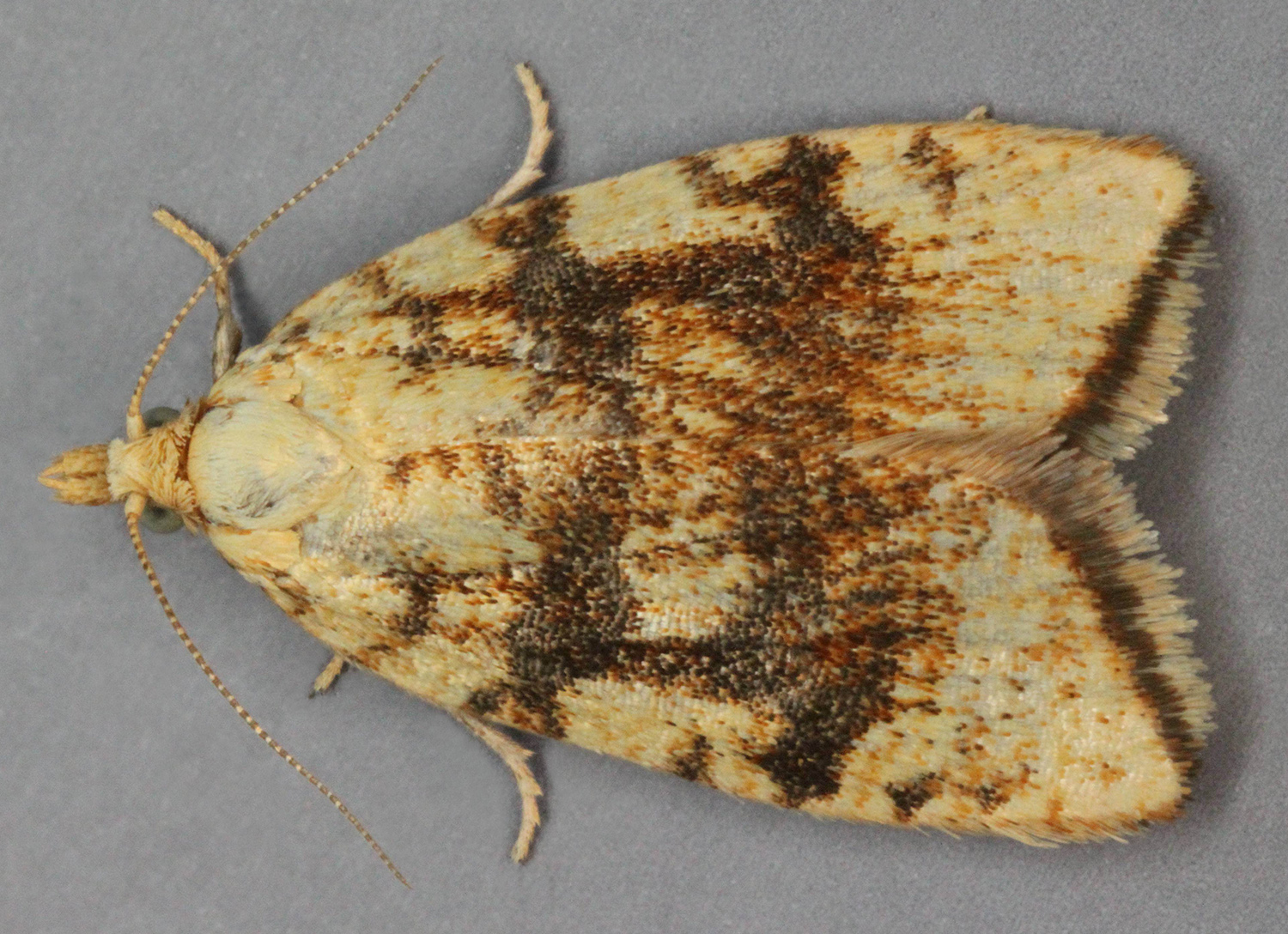 Aleimma loeflingiana, North Wales, June 2011